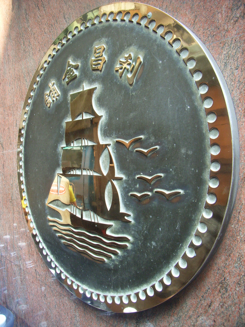 Lee Cheong Gold Dealers, Bonham Strand & Hillier Street, Sheung Wan, Hong Kong (Photographer & author: User:BITBITSW).